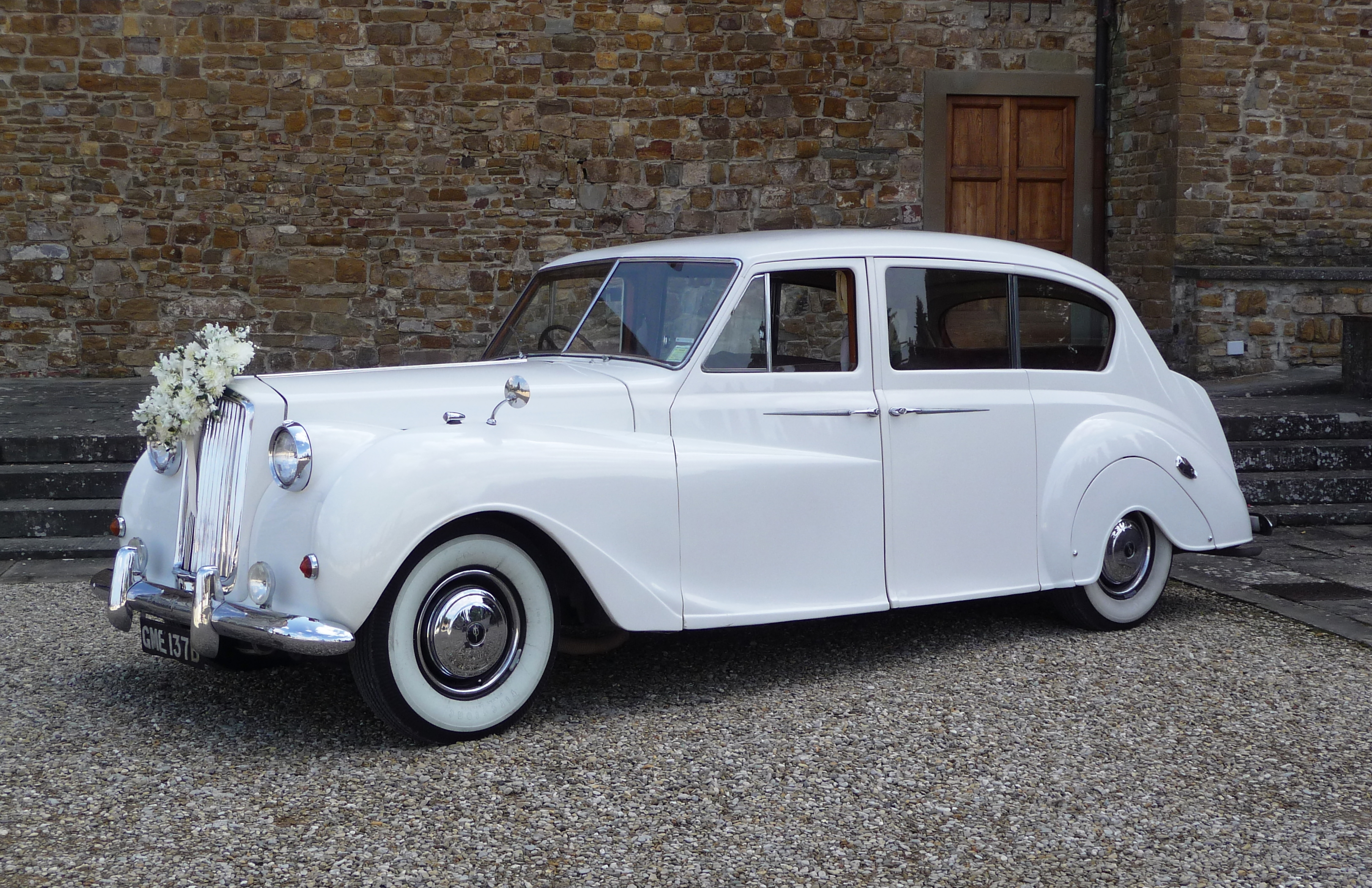 Vanden Plas Princess